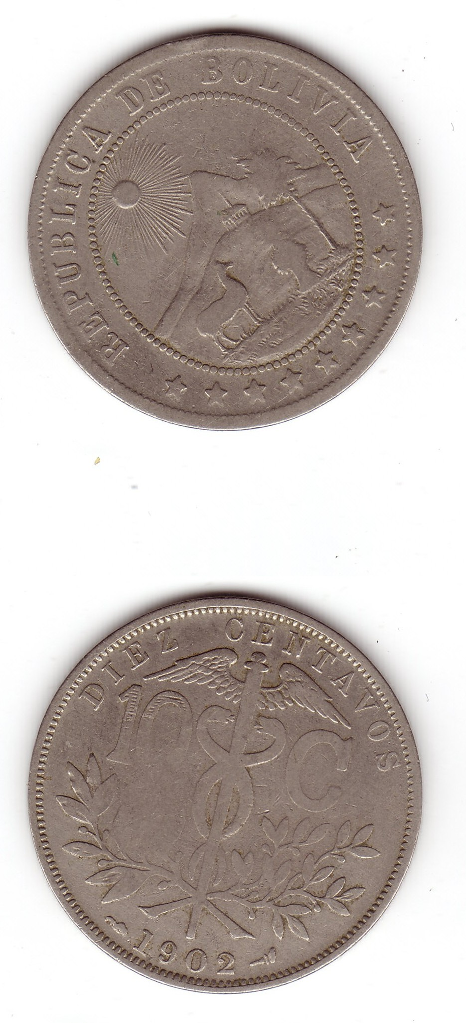 Bolivia 10 centavos, coin, observe y reverse Scan from own collection